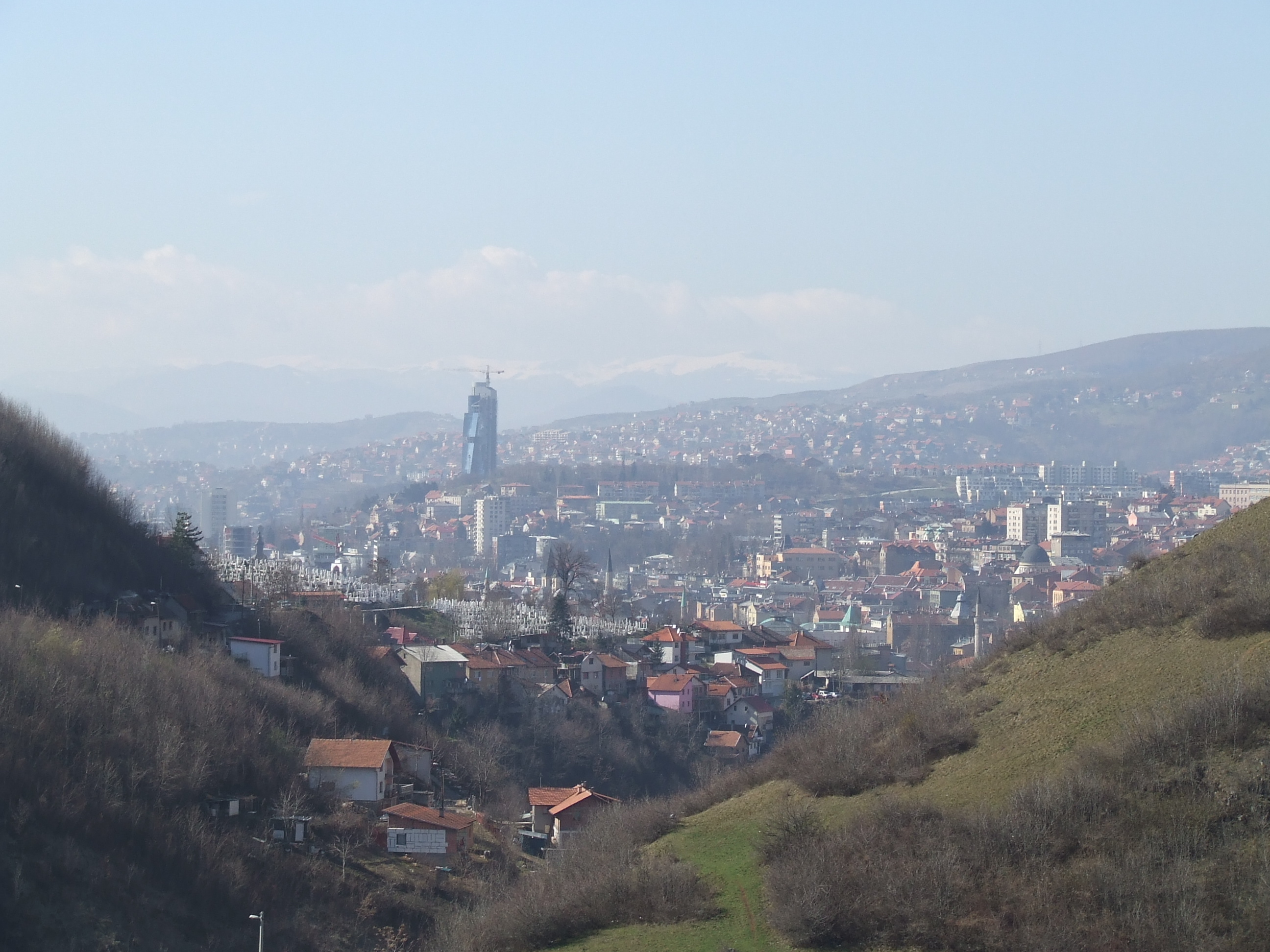 Sarajevo, panorama sa istoka.